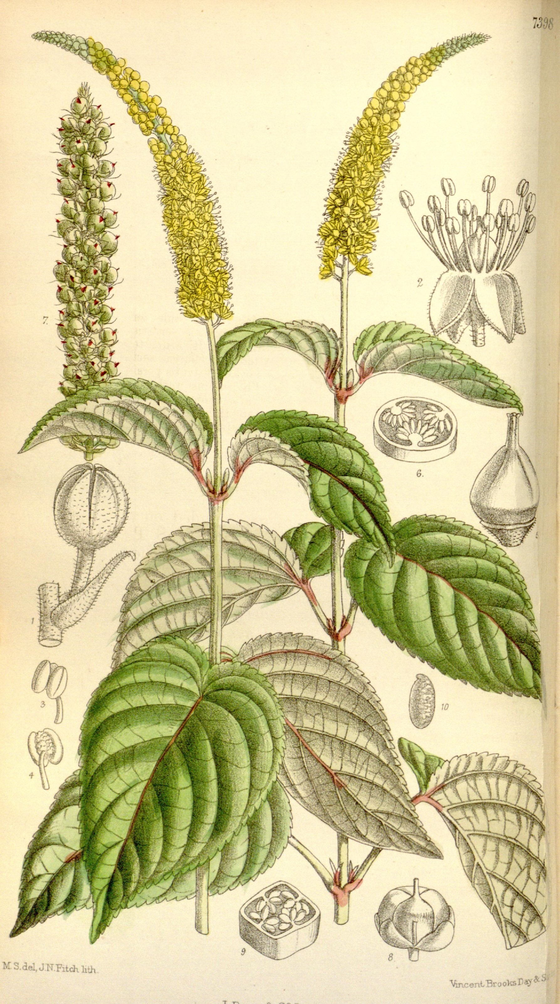 Abatia angeliana, formerly Aphaerema spicata Flickr description Curtis's botanical magazine.. London ; New York [etc.] :Academic Press [etc.].